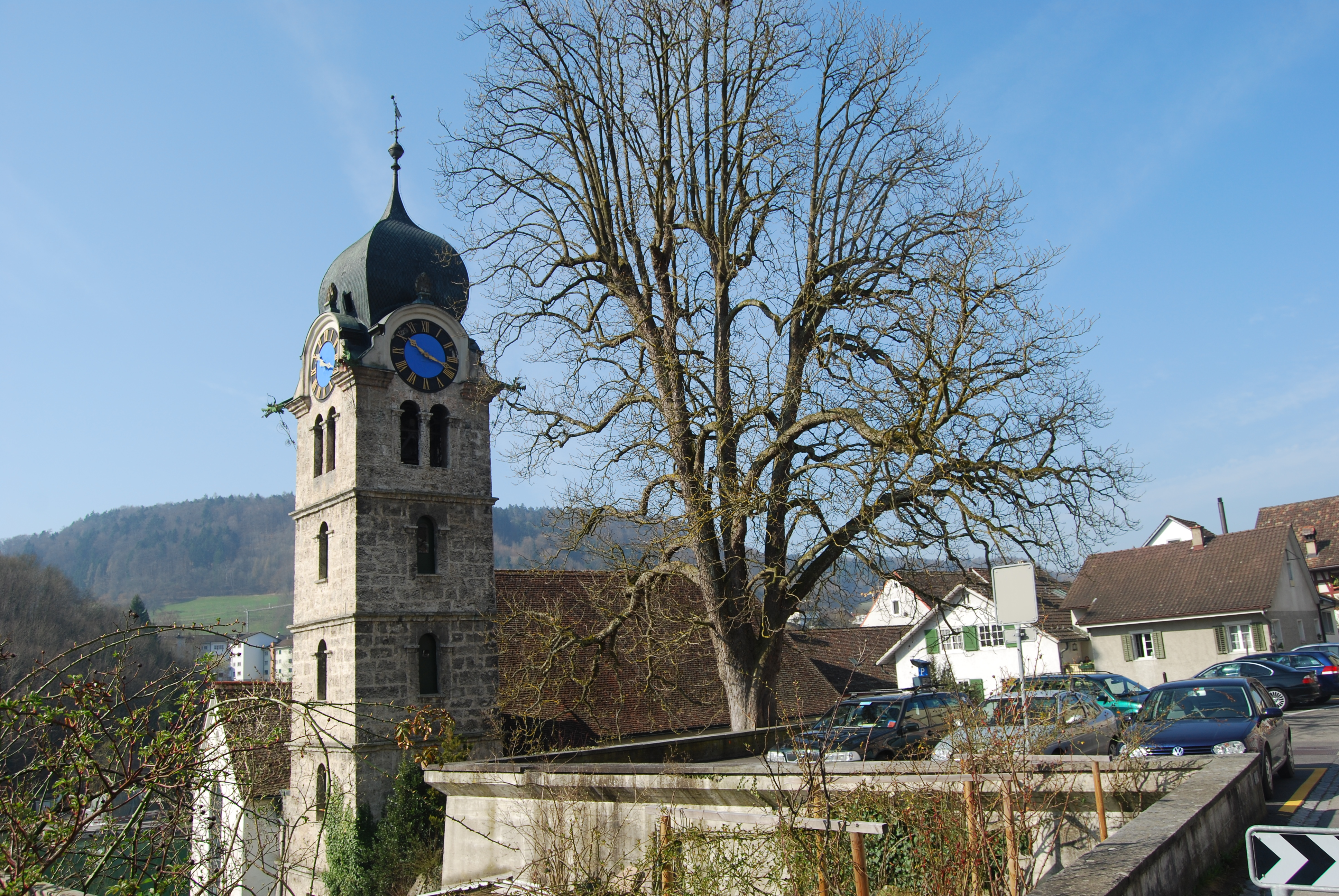 Church of Eglisau, canton of Zürich, SwitzerlandEsperanto: Preĝejo de Eglisau, Kantono Zürich, Svislando